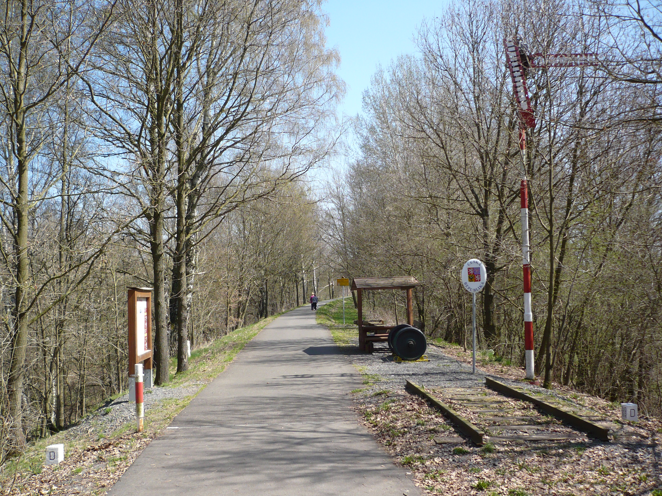 Trackbed of the closed railway line (now a cycleway) between Cheb (Czech Republic) and Wiesau (Germany) at the border crossing-point. The white stones inscribed "D" on either side of the route mark the line of the border.